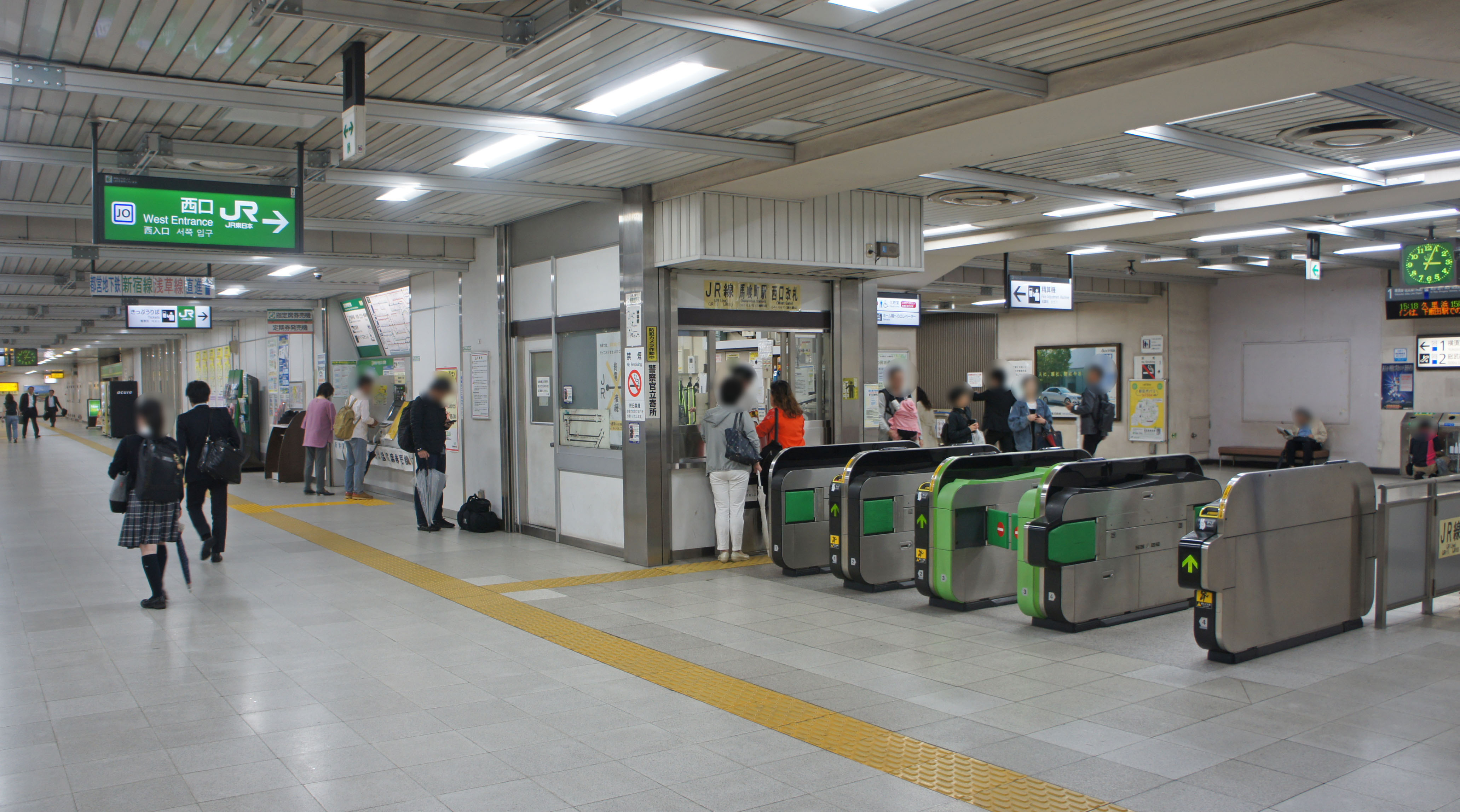 West Gates of JR Sobu-Main-Line Bakurocho Station